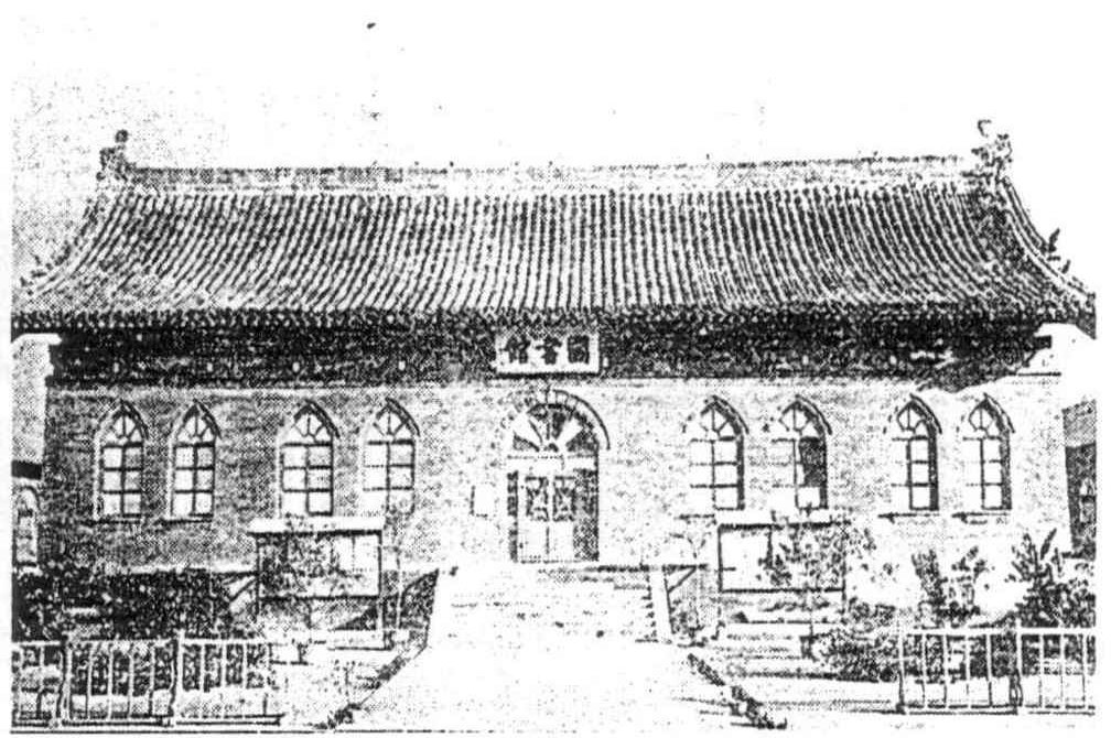 Library, Bingzhou College